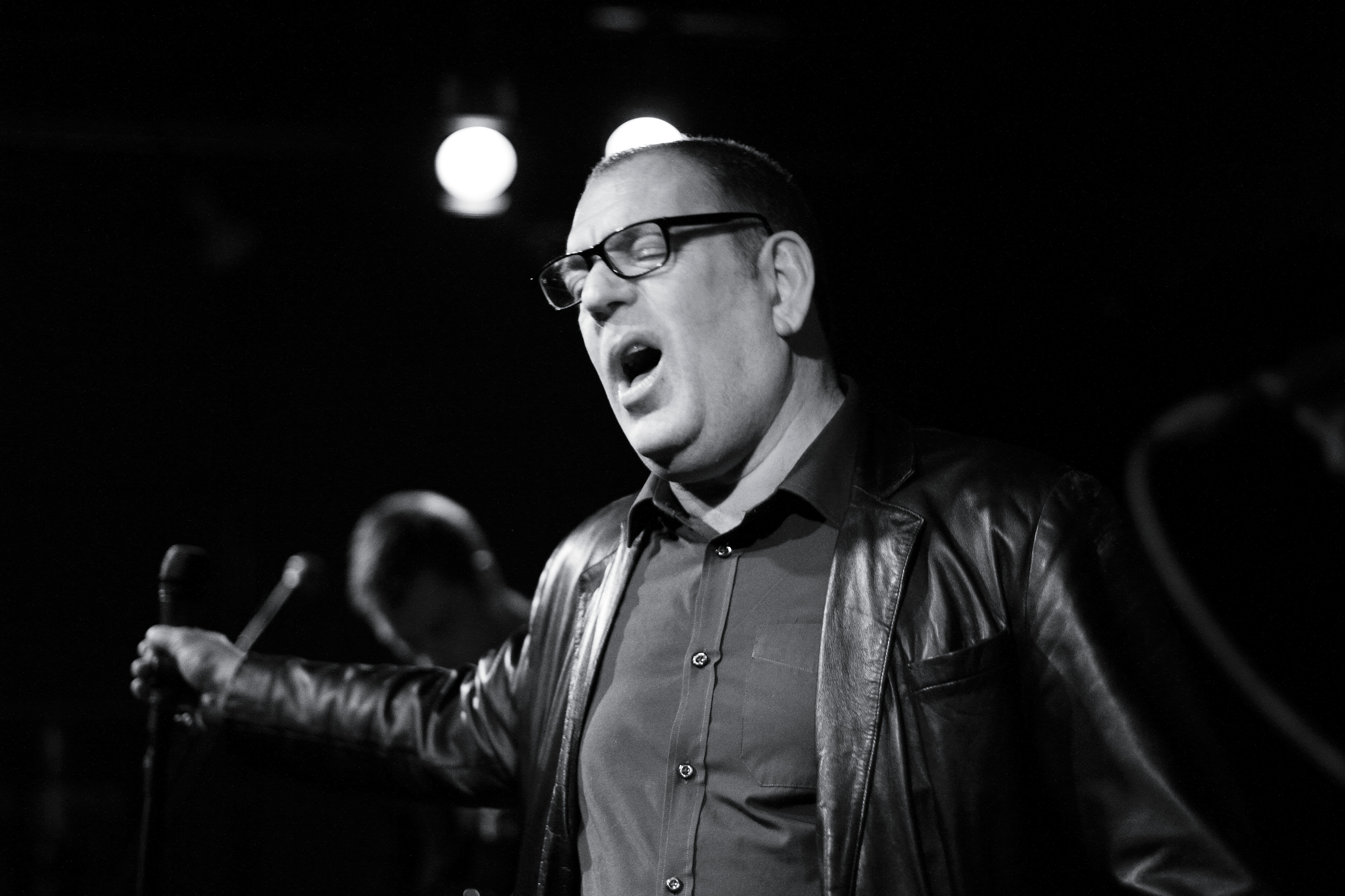 Robert Lloyd & The Nightingales at Club W71, Weikersheim.